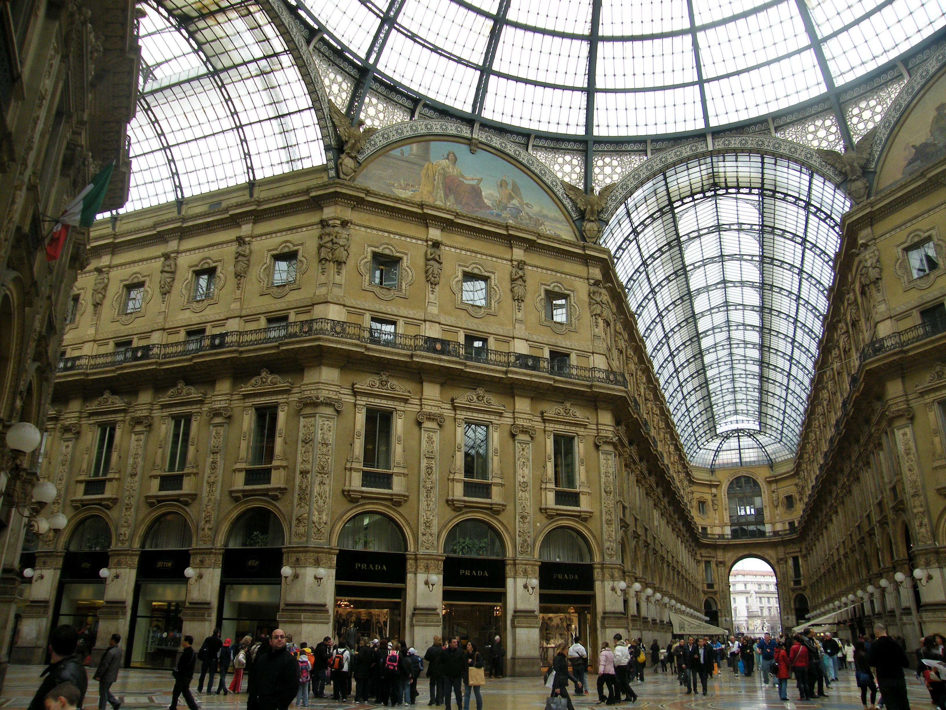 Galleria Vittorio Emanuele II (Milan)